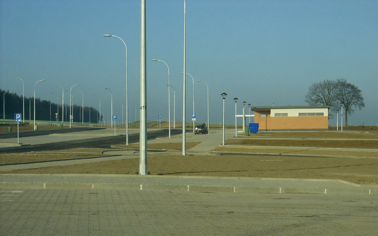 Rest area in Kleszczewko Highway A1, northbound